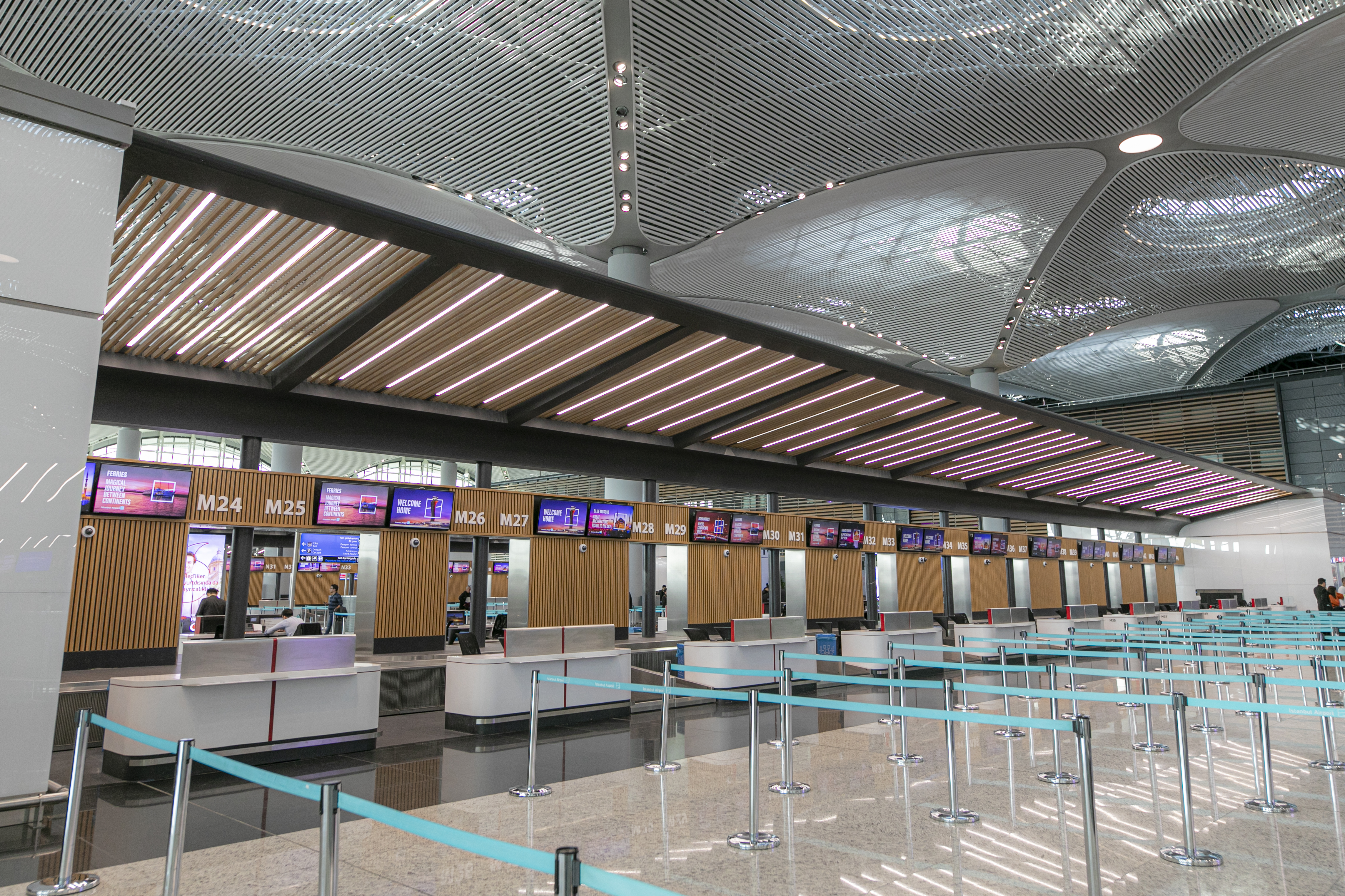 İstanbul Flughafen